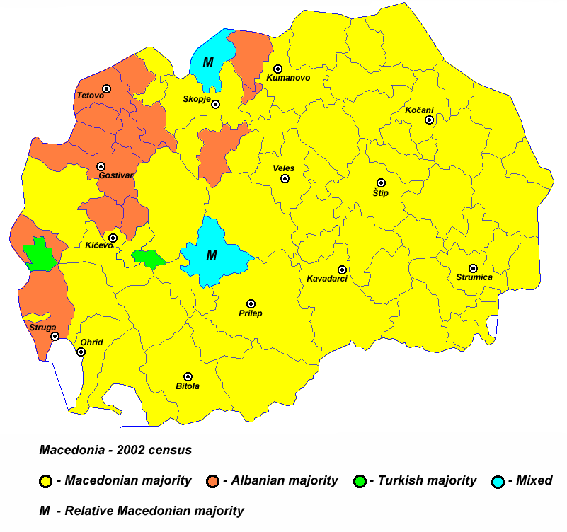 Ethnic map of the Republic of Macedonia